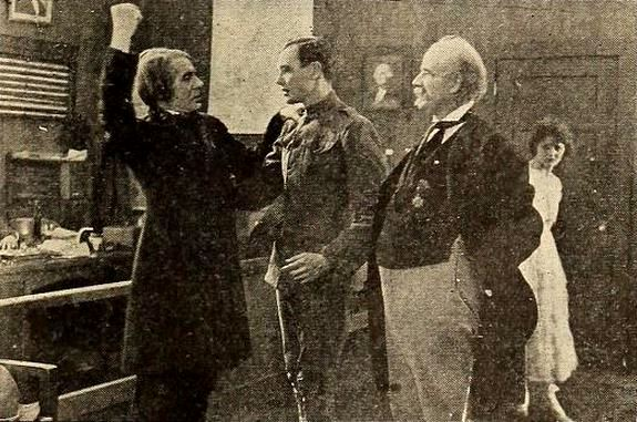 Still from the American film Hay Foot, Straw Foot (1919) with Spottiswoode Aitken, Charles Ray, J. P. Lockney, and Doris May, on page 16 of the September 1919 Film Fun.